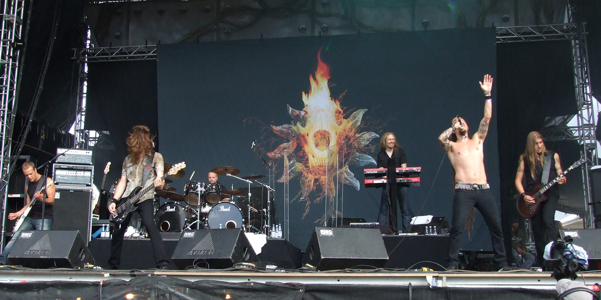 Amorphis live at Qstock 2009 in Oulu, Finland. Photo: Tina Solda